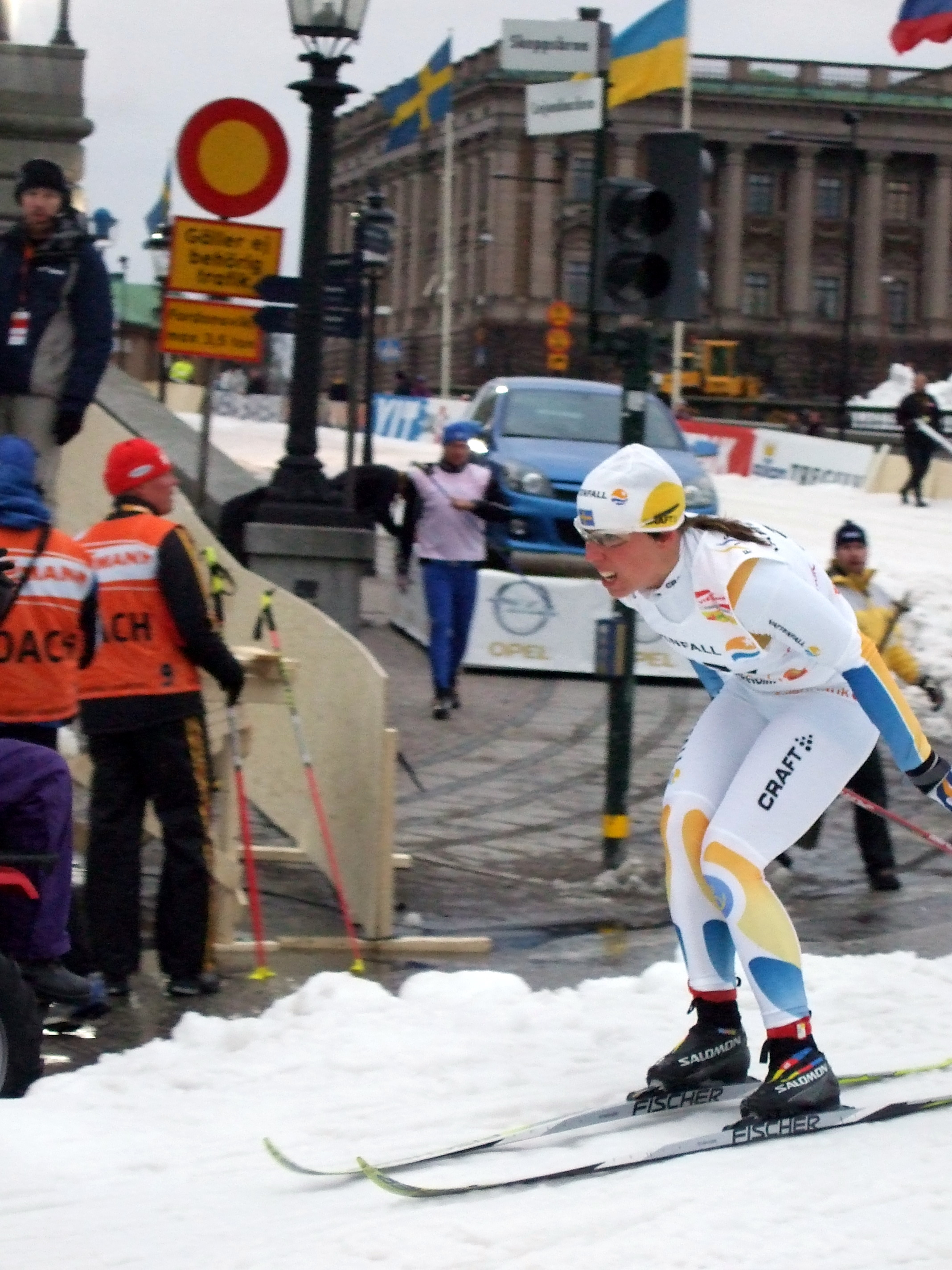 Charlotte Kalla at the Royal Castle World Cup sprint in Stockholm, Sweden